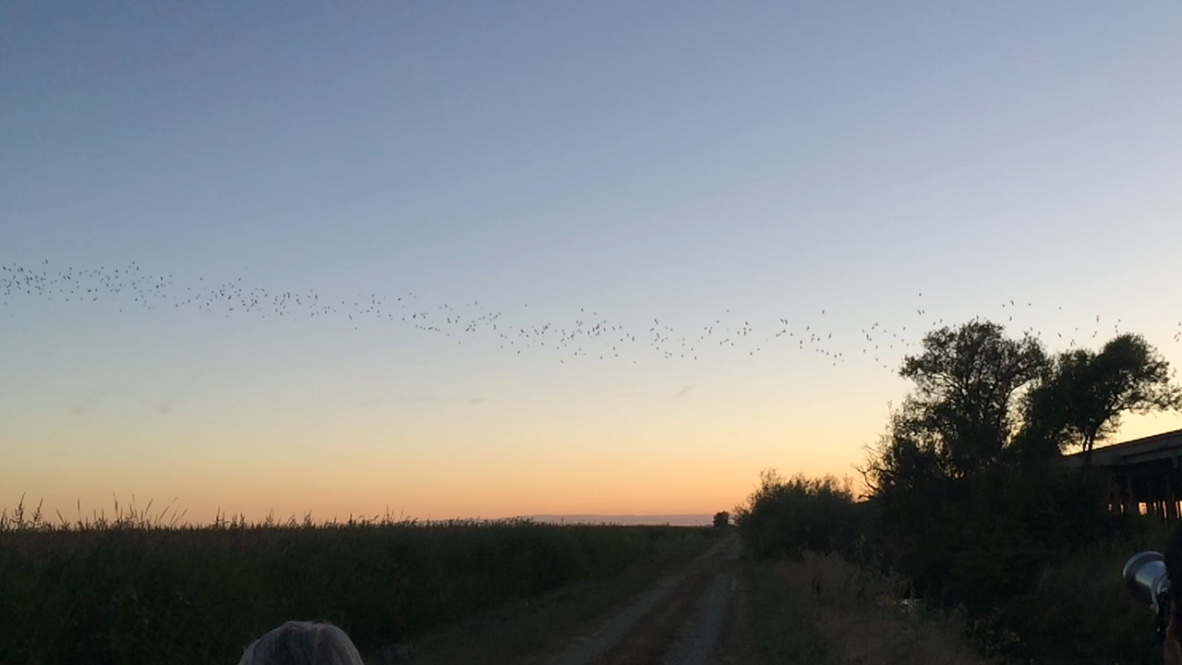 Bats flying from under the Interstate 80 elevated causeway in Yolo County, California.